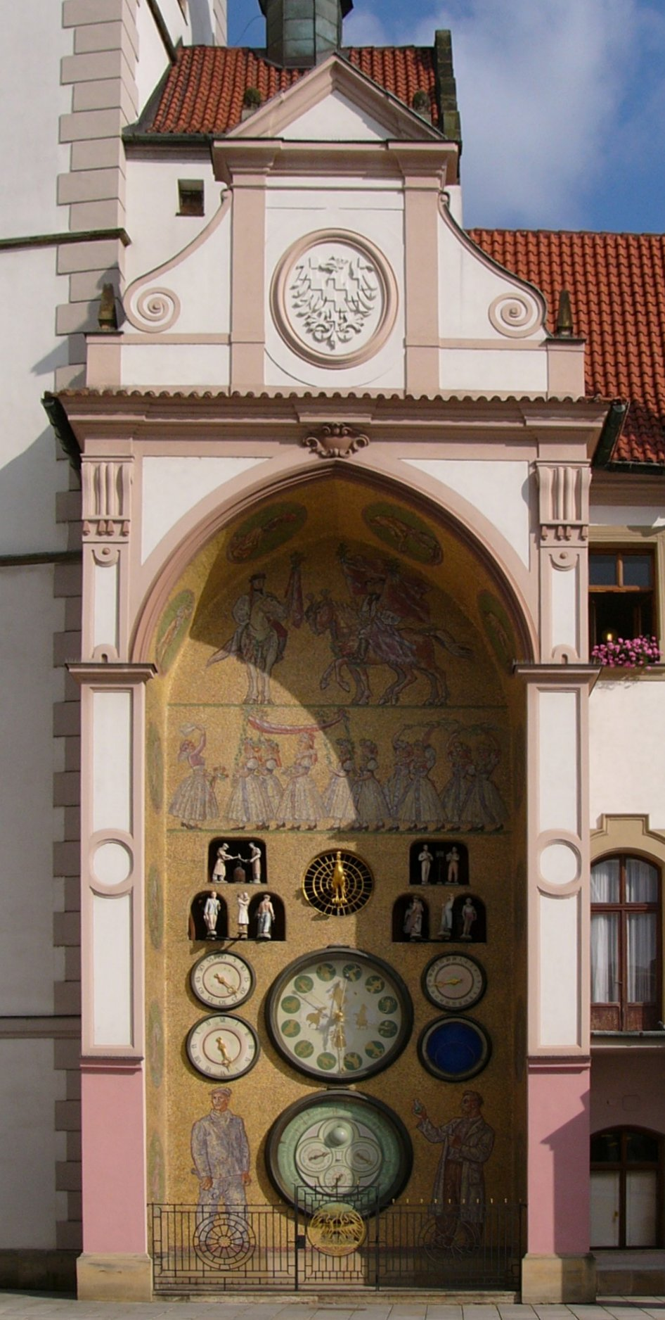 Astronomical clock at town hall in Olomouc (Czech Republic)